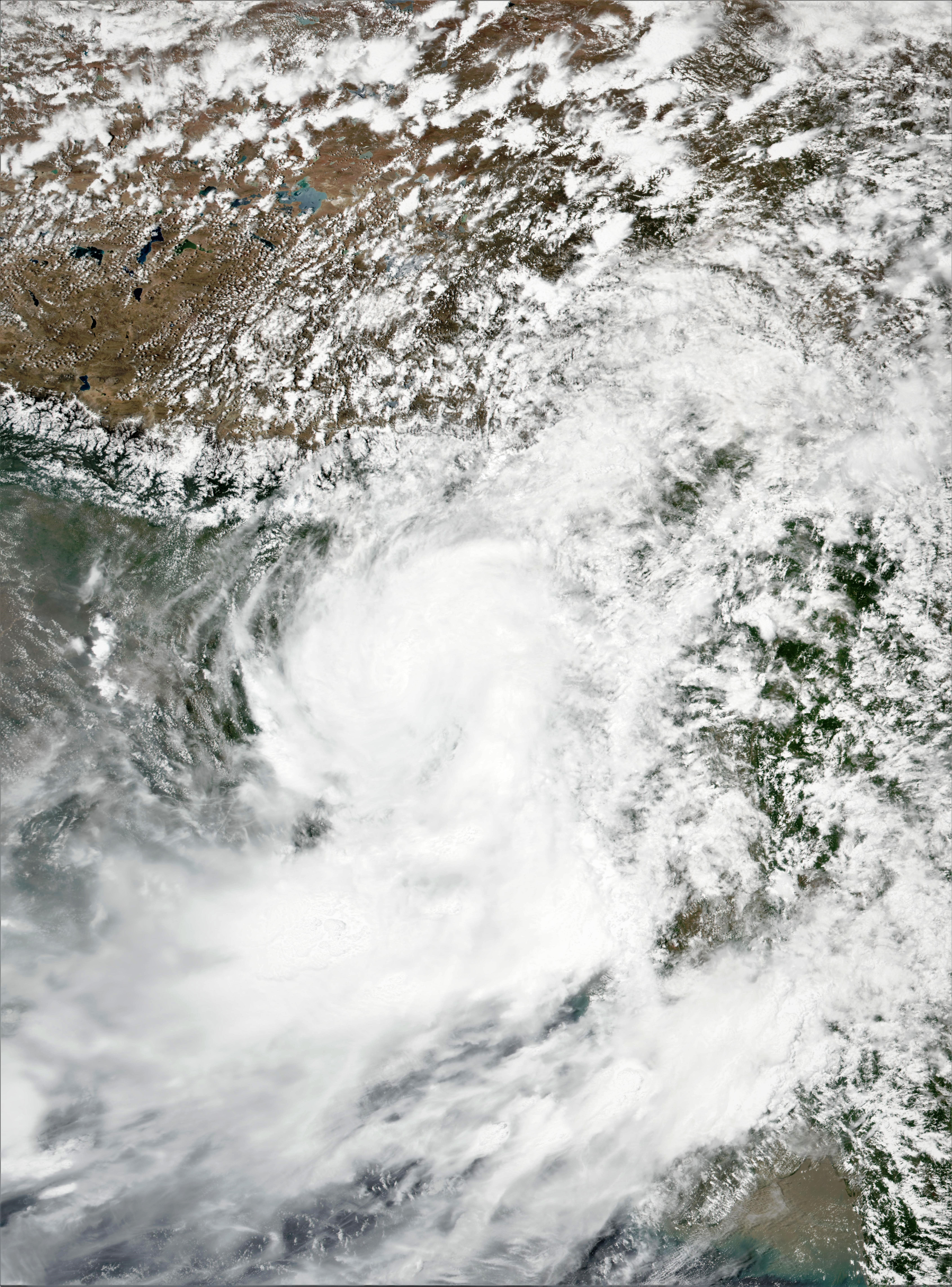 A satellite image of Deep Depression BOB 03 over Bangladesh, a few hours after making landfall. The maximum three-minute sustained winds are 30 knots.